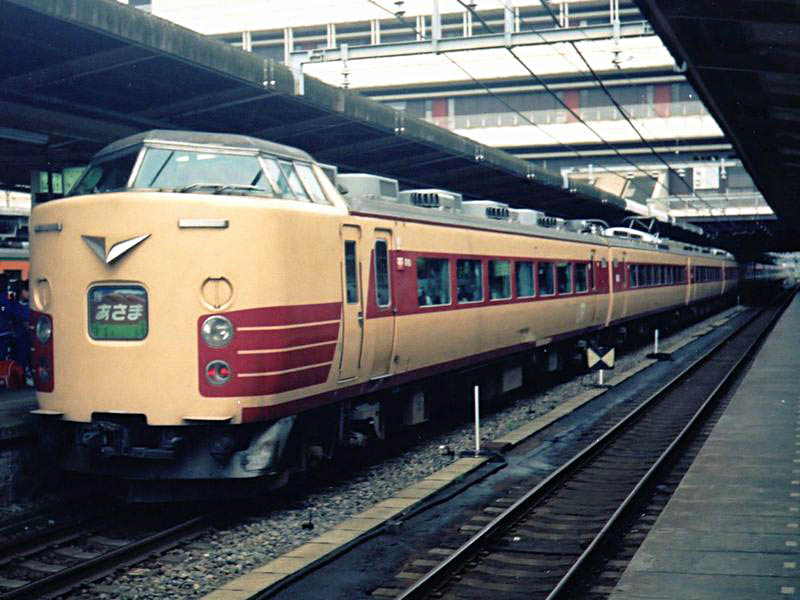 A JR East 189 series EMU on an Asama limited express service at Omiya Station